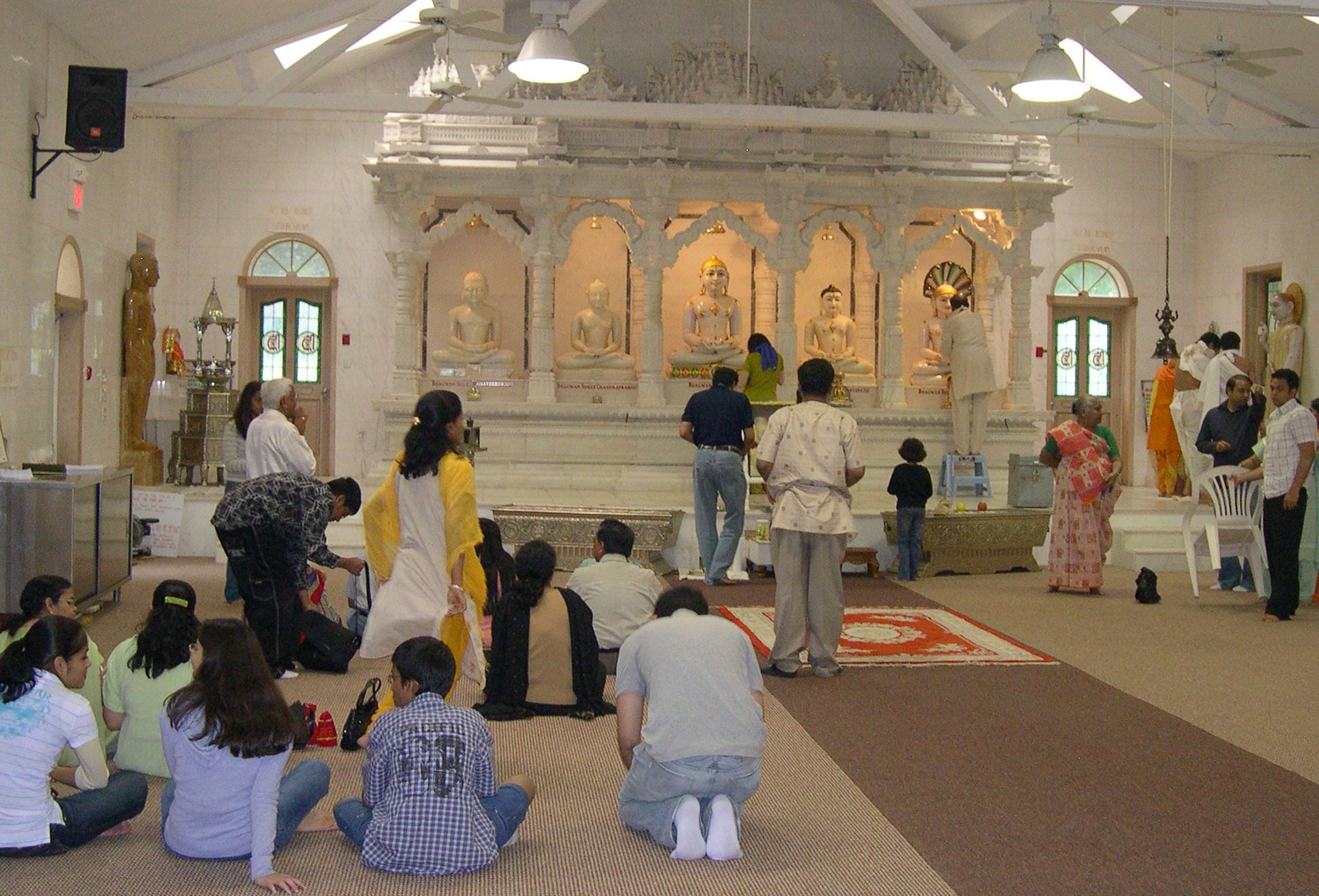 Main shrine at Siddhachalam Jain center in New Jersey. Images of Tirthankaras Mahvir, Chandraprabha, Adinath, Shantinath and Parshvanath.